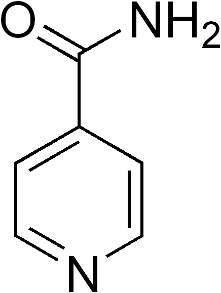 chemical structure of isonicotinamide